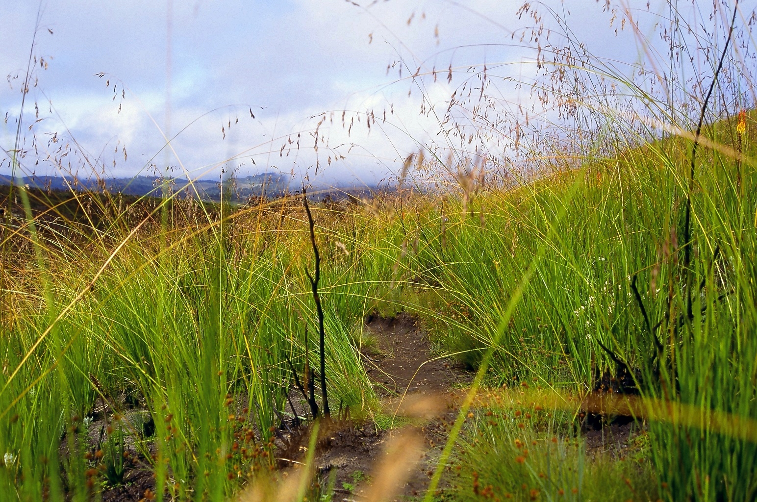 Elephant grass (Pennisetum purpureum) on Chogoria Route